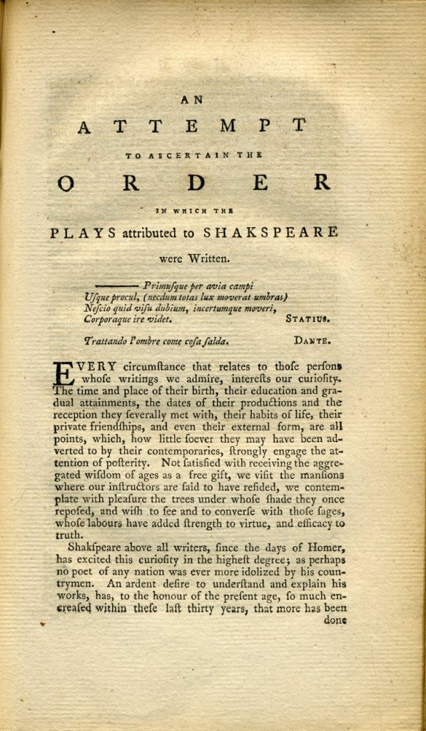 Title page of Edmond Malone's "An attempt to ascertain the order in which the plays attributed to Shakespeare were written."The Plays of William Shakespeare in Ten Volumes, Samuel Johnson and George Steevens, eds. (1778), 2nd ed., vol I, pp. 269-346.